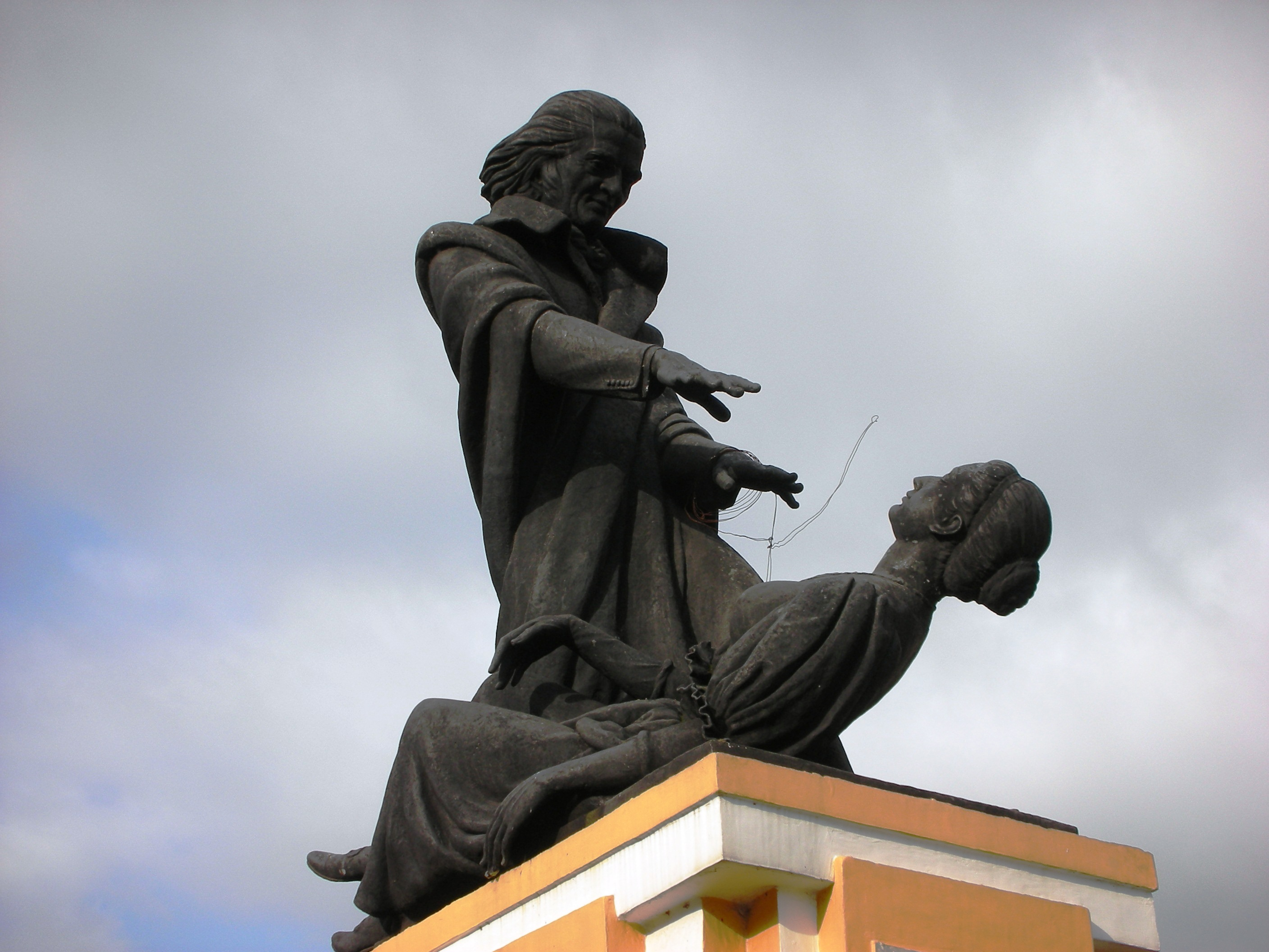 Statue of Aba de Faria next to old Secreteriate